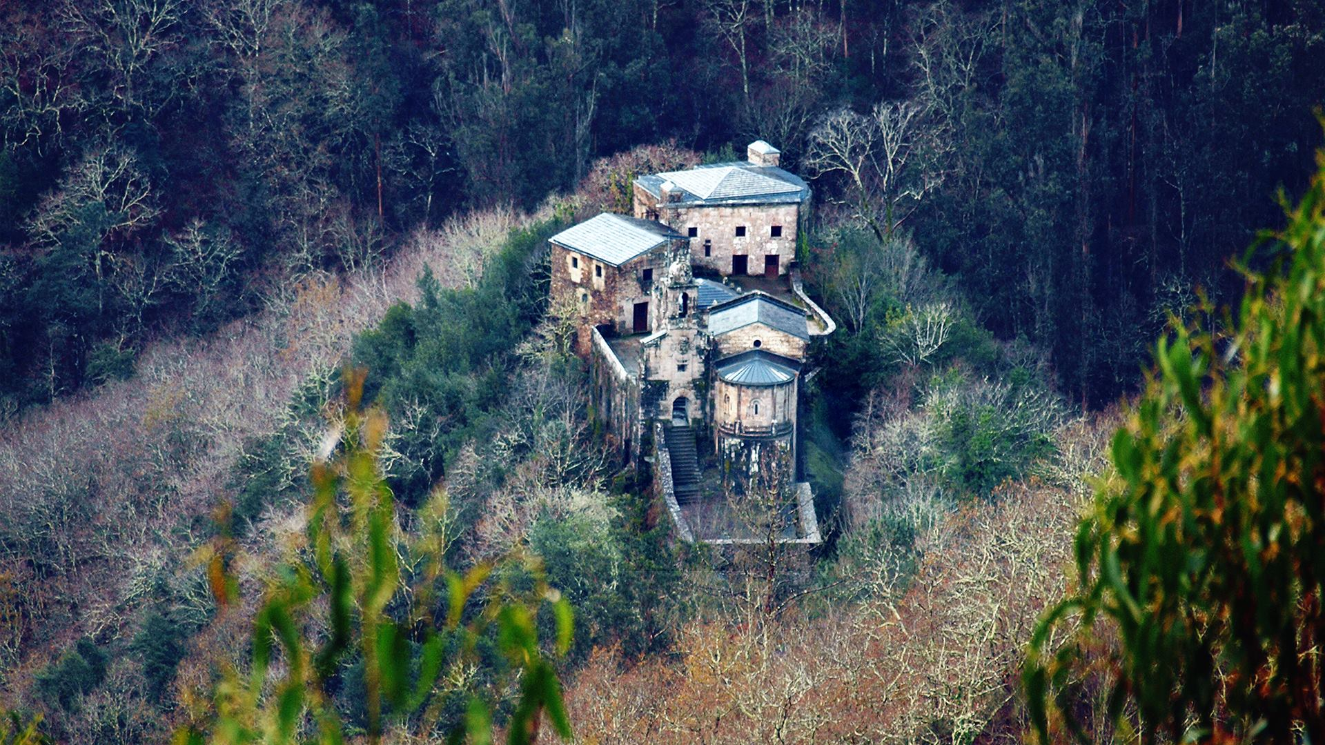 Caaveiro Monastery view from the front hill inside the "Fragas del Eume" natural park.